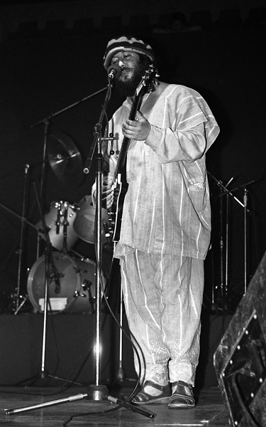 Peter Green performing at the "Hala Pionir" venue in Belgrade, Yugoslavia (now Serbia) on 30 May 1983.